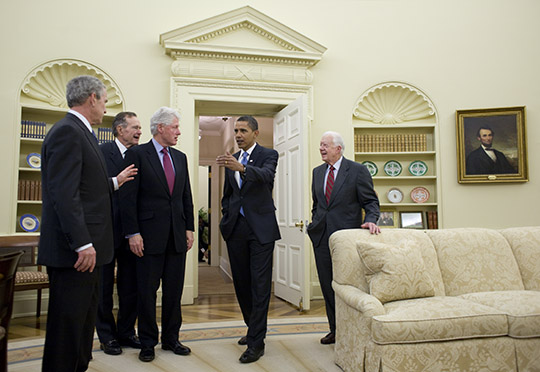 President-elect Obama with former Presidents Bush (41), Carter and Clinton and current President Bush at the WHite House on Jan. 7, 2009.